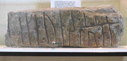 Sm 104. A fragment of a runestone in Vetlanda church, Sweden.